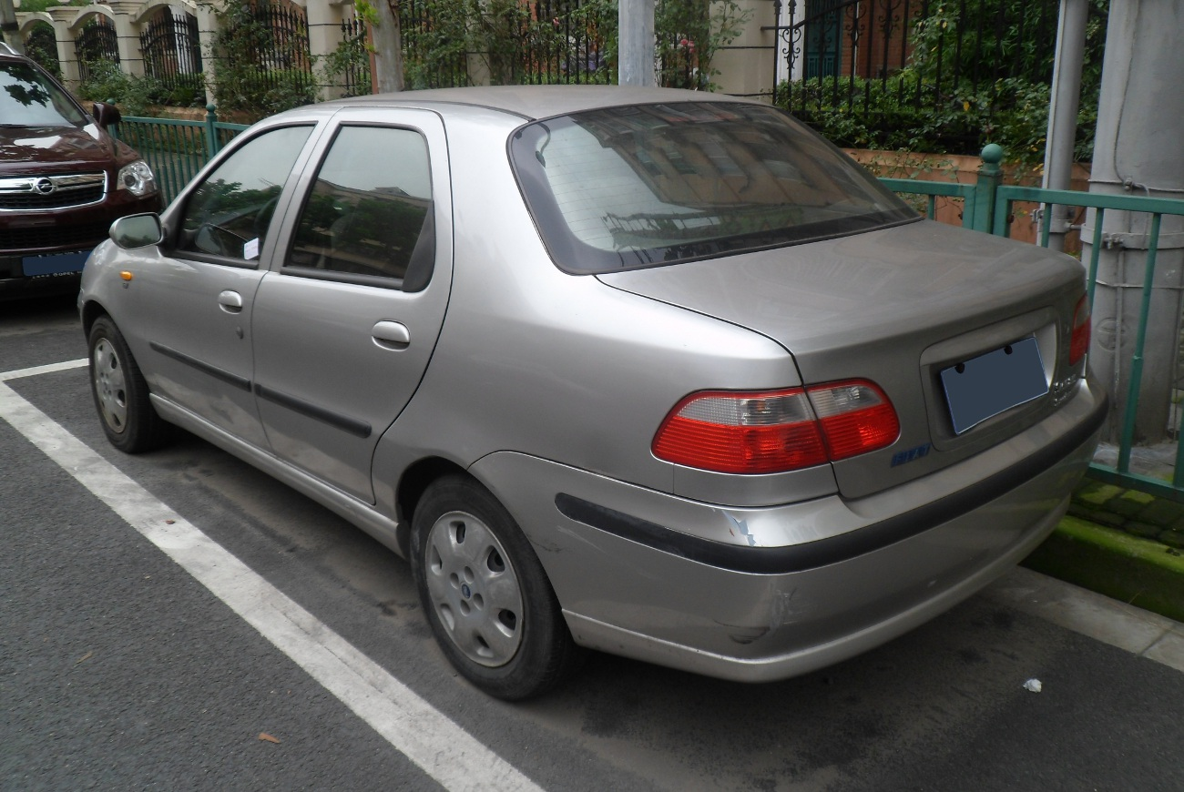 Fiat Siena photographed in Shanghai, China.